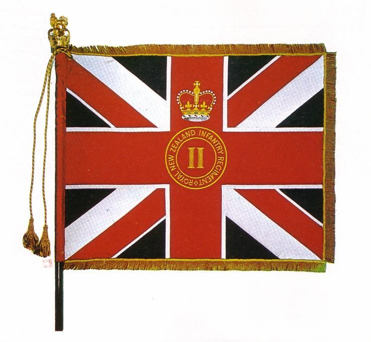 2 Cant NMWC Queen's Colour